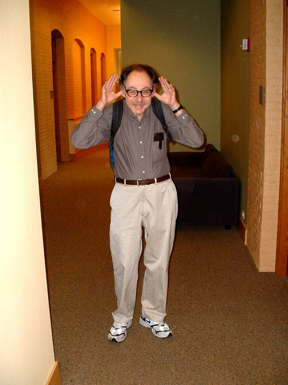 Sidney Coleman at Harvard